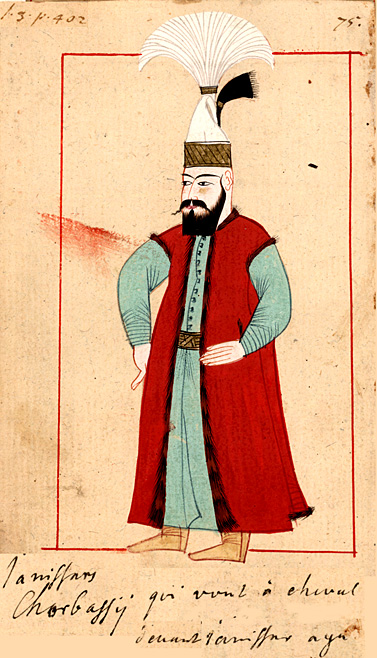 Janissary colonel — "Ianissars Chorbassij qvi vont à cheval deuant Ianissar aga" (Military Pictures from the Ralamb Costume Book, 1657)